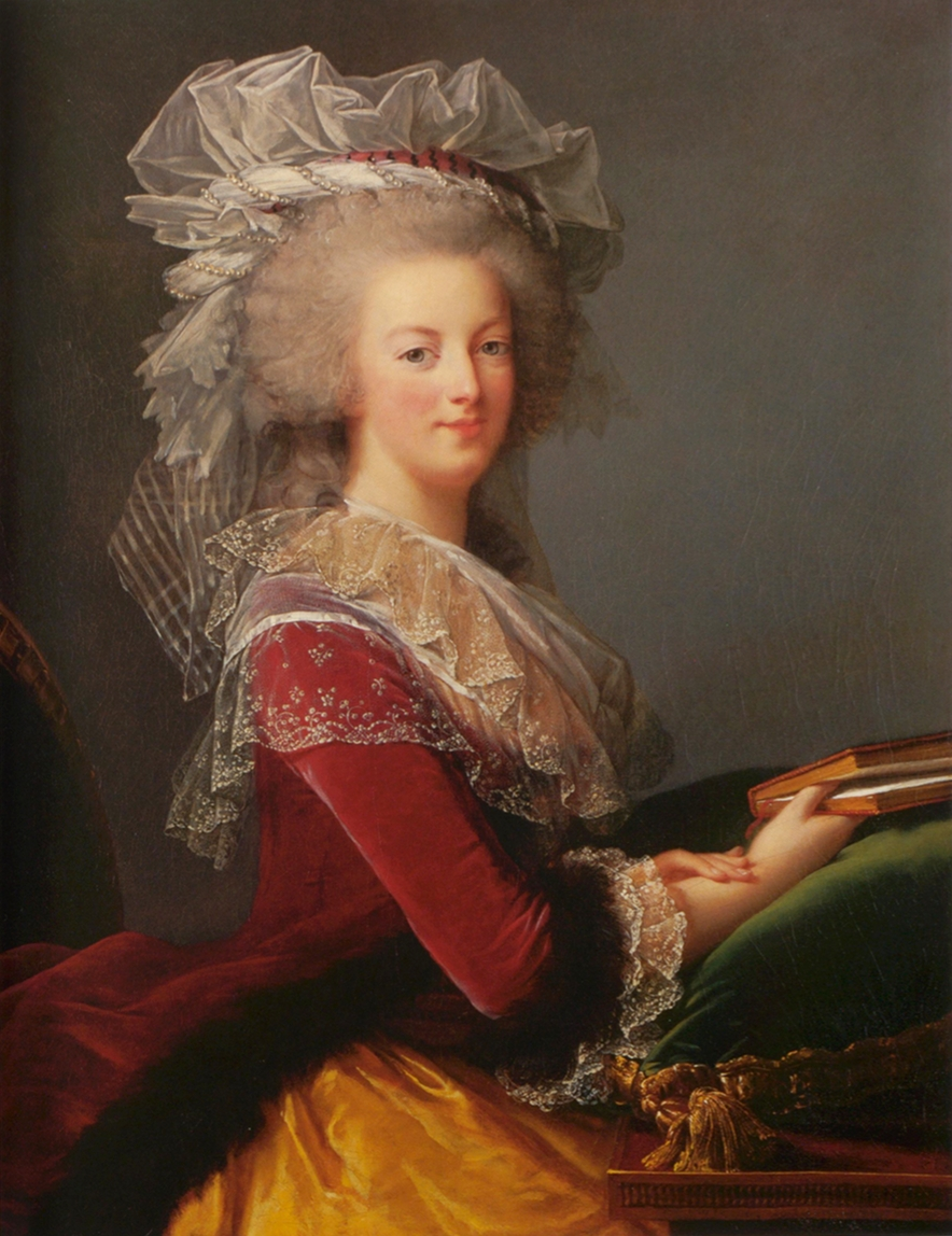 Portrait of Marie Antoinette painted in 1785 for the Ministry of Foreign Affairs.